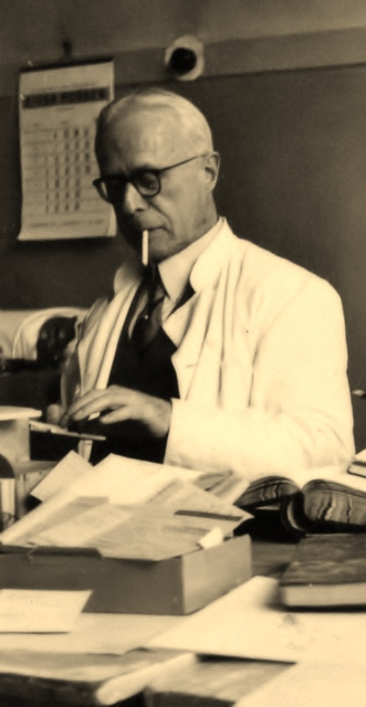 Photograph of professor Reinder Harrenstein, first Dutch children's orthopedic surgeon.